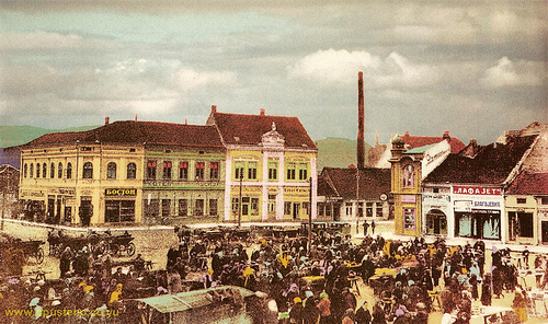 Čačak, at the begining of 20th century